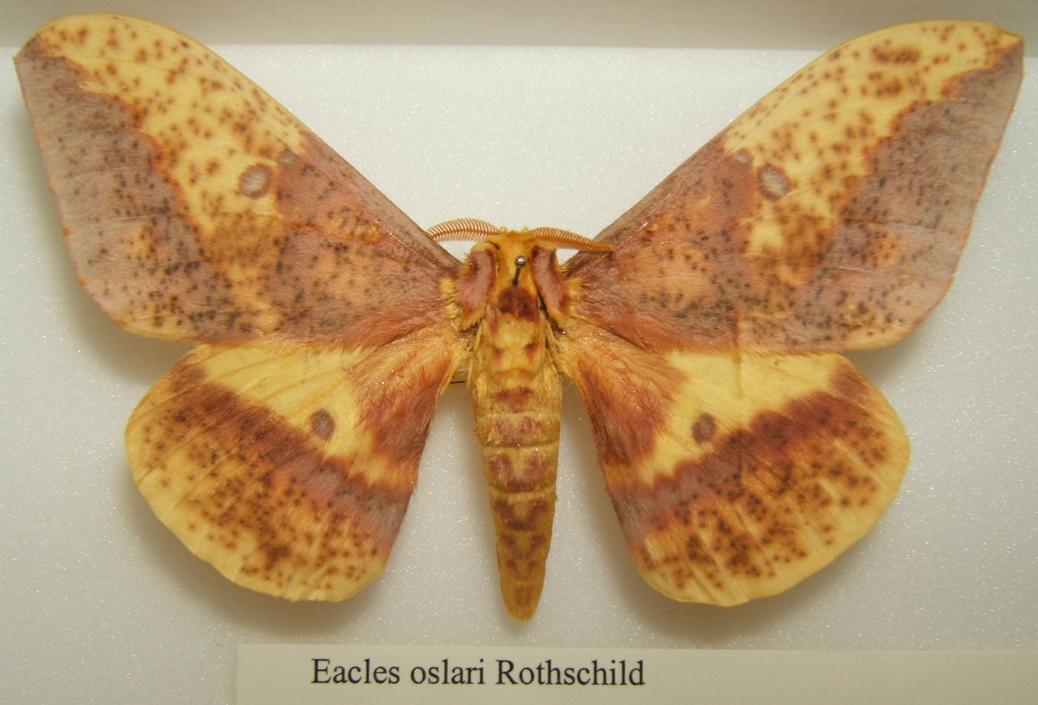 Eacles oslari adult male taken by Shawn Hanrahan at the Texas A&M University Insect Collection in College Station, Texas.